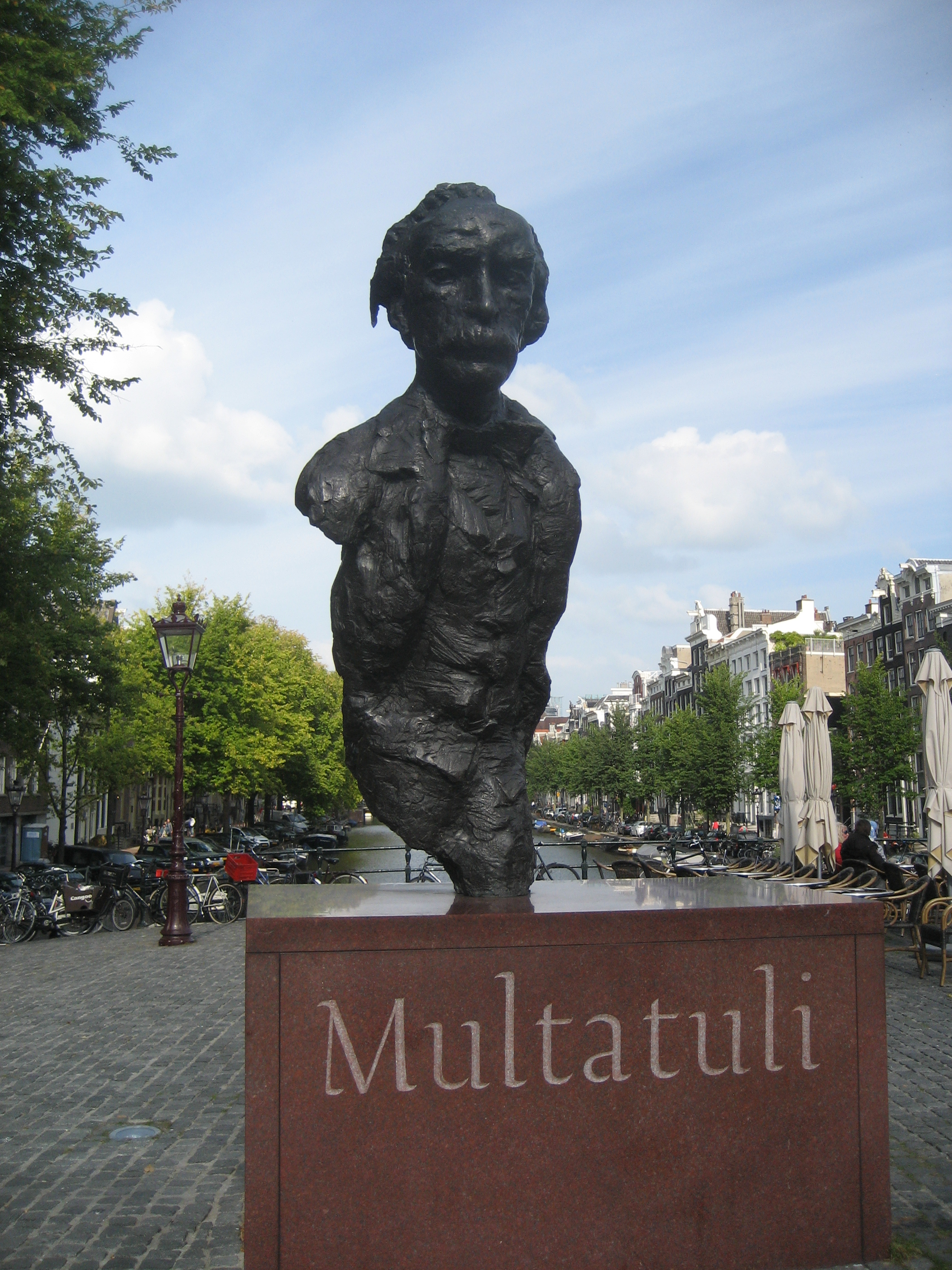 Multatuli bust by Hans Bayens, Amsterdam (Netherlands)